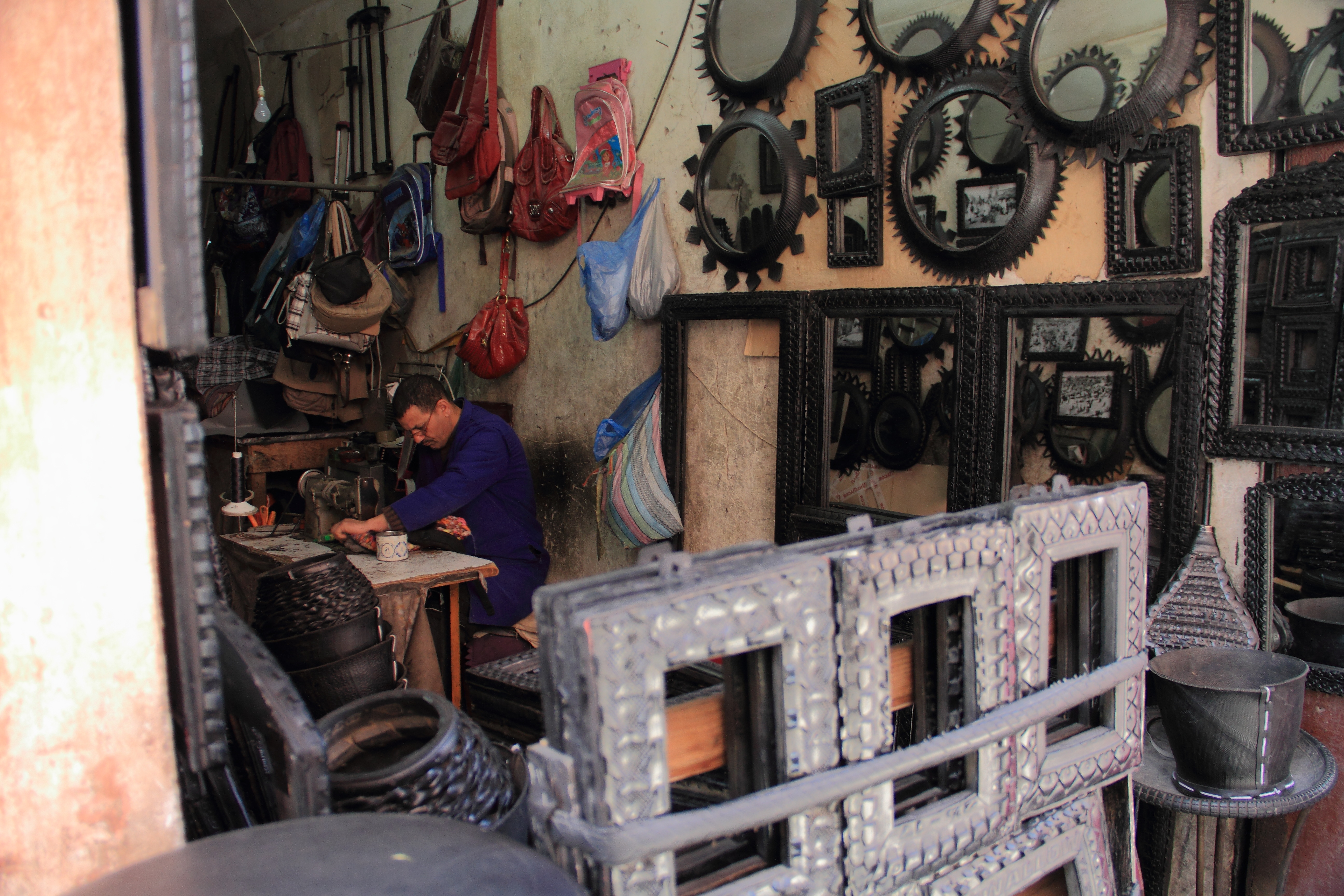 A craftshop in the souq of Marrakech sells arts and crafts made of old car tires.